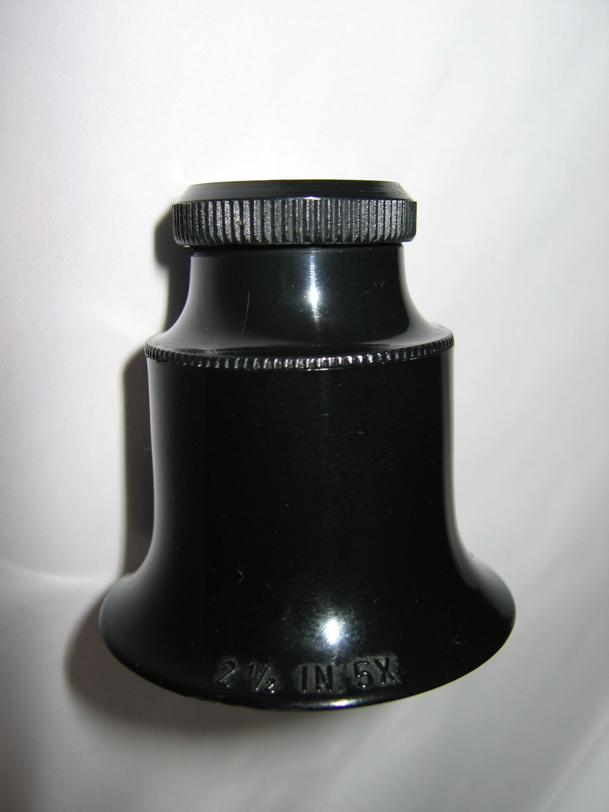 A type of small magnifying glass